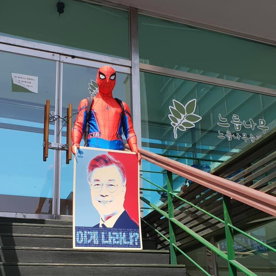 At the paper company that committed online public opinion manipulation, an anti-Moon protester is holding a banner with Moon Jae-in's picture saying "Is this supposed to be a (proper) country?"